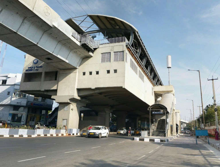 తార్నాక